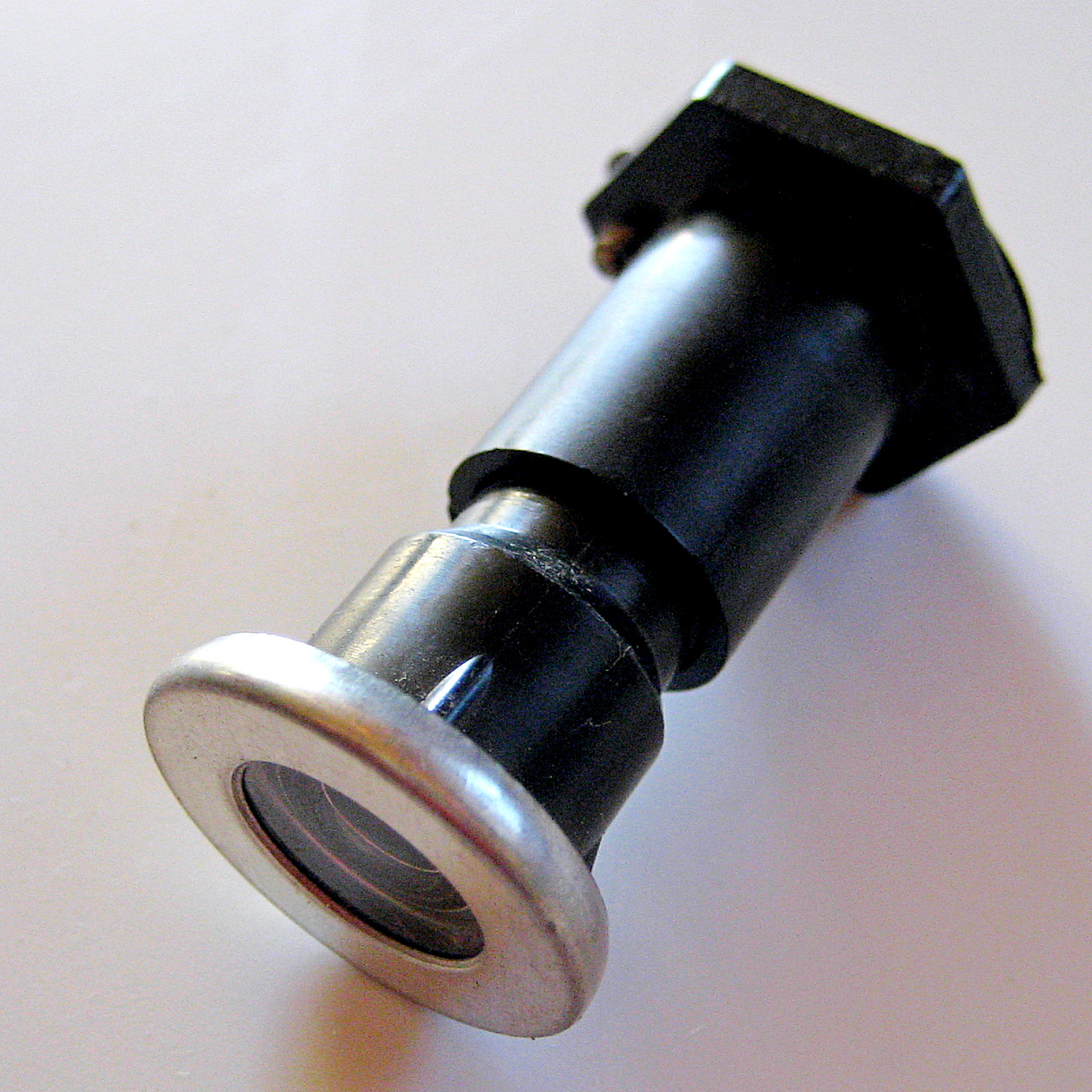 A peephole is a small opening through which one may look.